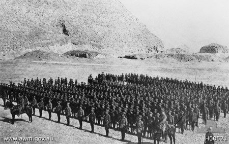 AWM caption : North Africa: Egypt, North Egypt, Mena. Members of the 3rd Battalion AIF assembled on parade. The 3rd Battalion was part of the 1st Division AIF which was en route to England for ultimate service on the Western Front when it was diverted to Egypt to carry out training in that country.